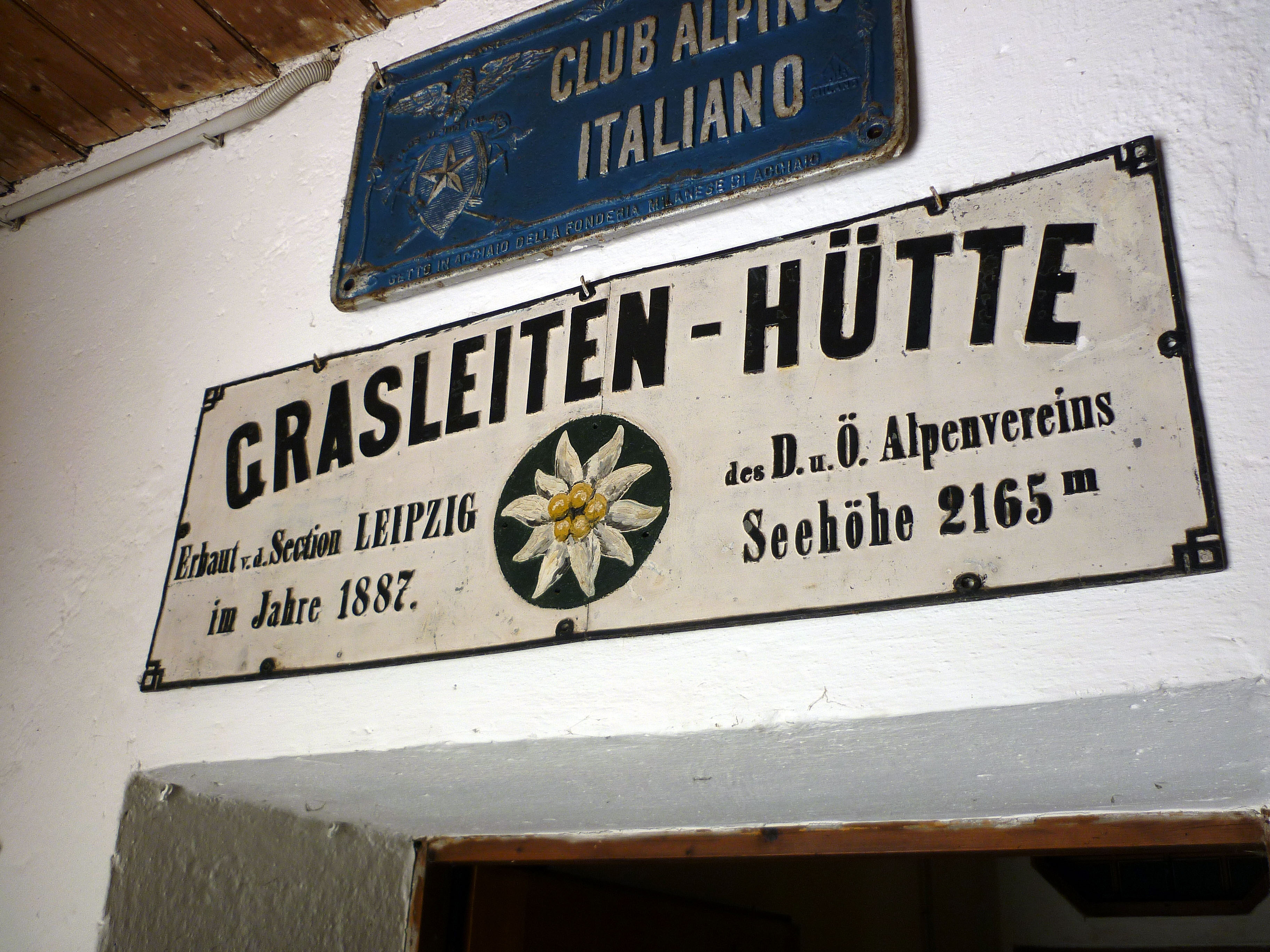 Information plaque at the entrance of the Grasleitenhütte in South Tyrol.